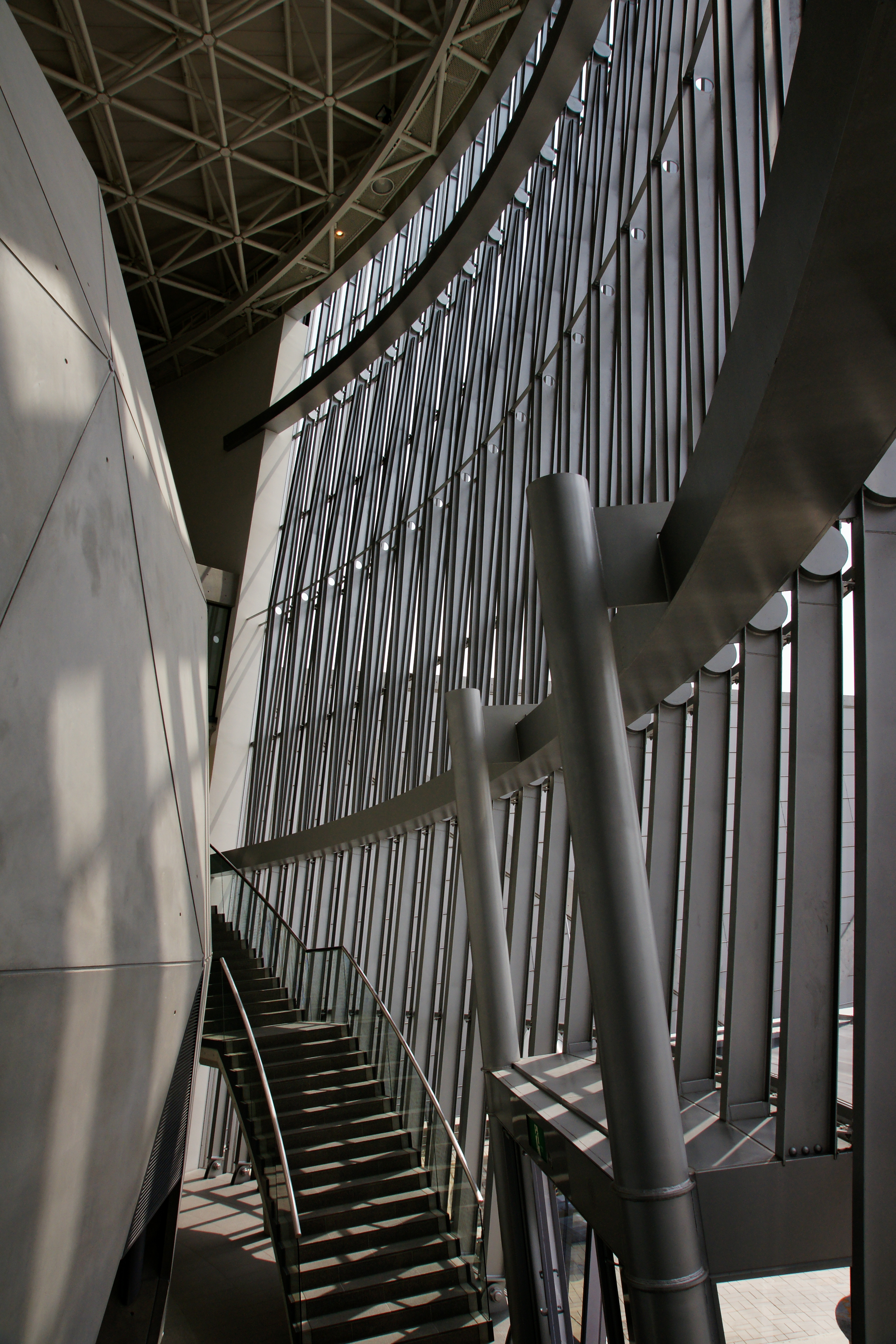 Suntory Museum in Osaka, Osaka prefecture, Japan